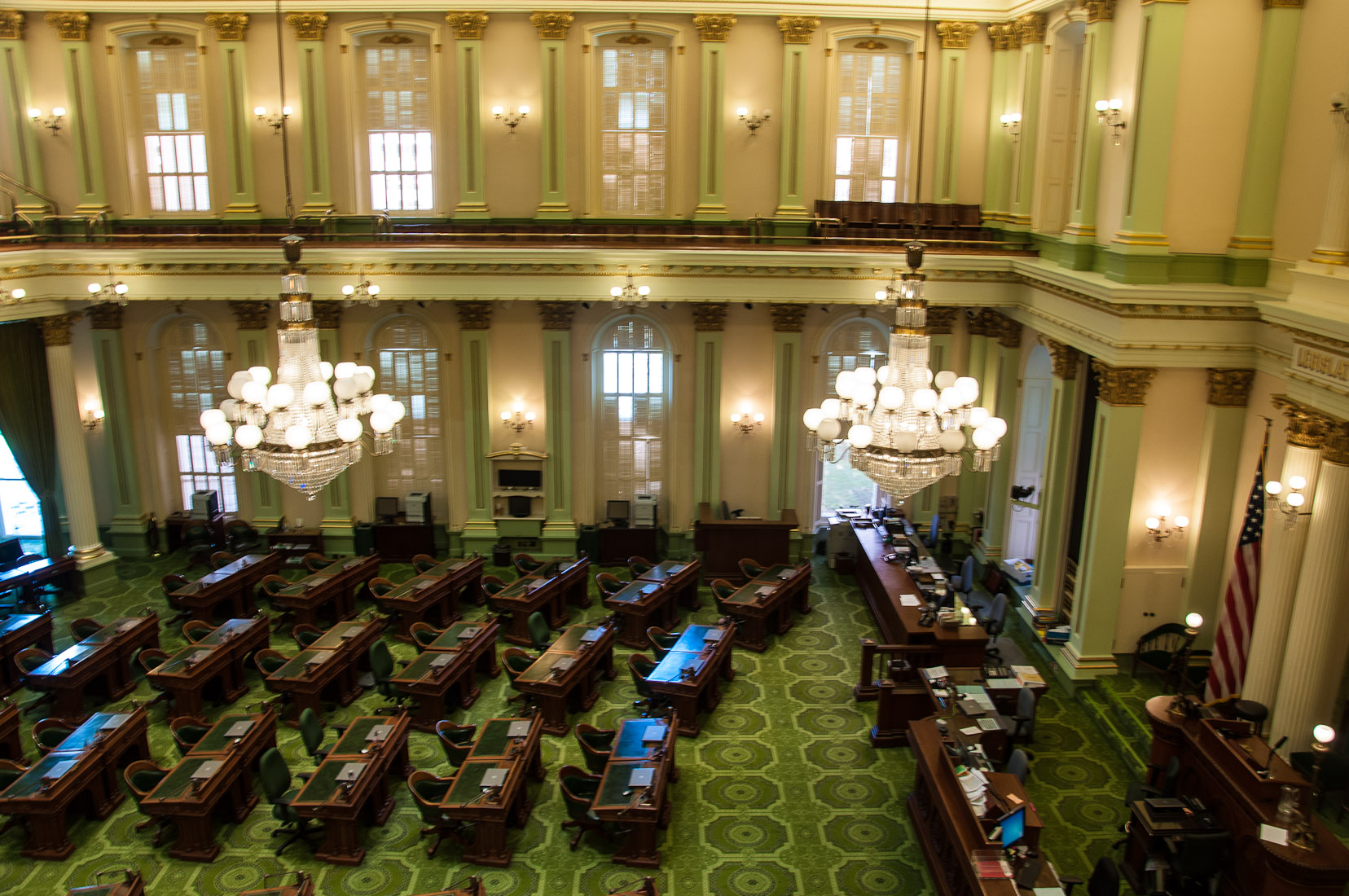 House